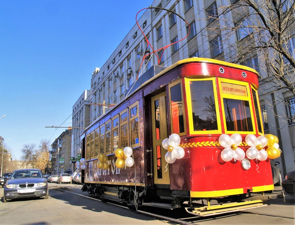 “The first Saratov tram, an operating museum piece”. The first city tram, an operating museum piece, carried passengers during the hundred years' anniversary of its inauguration in Saratov.